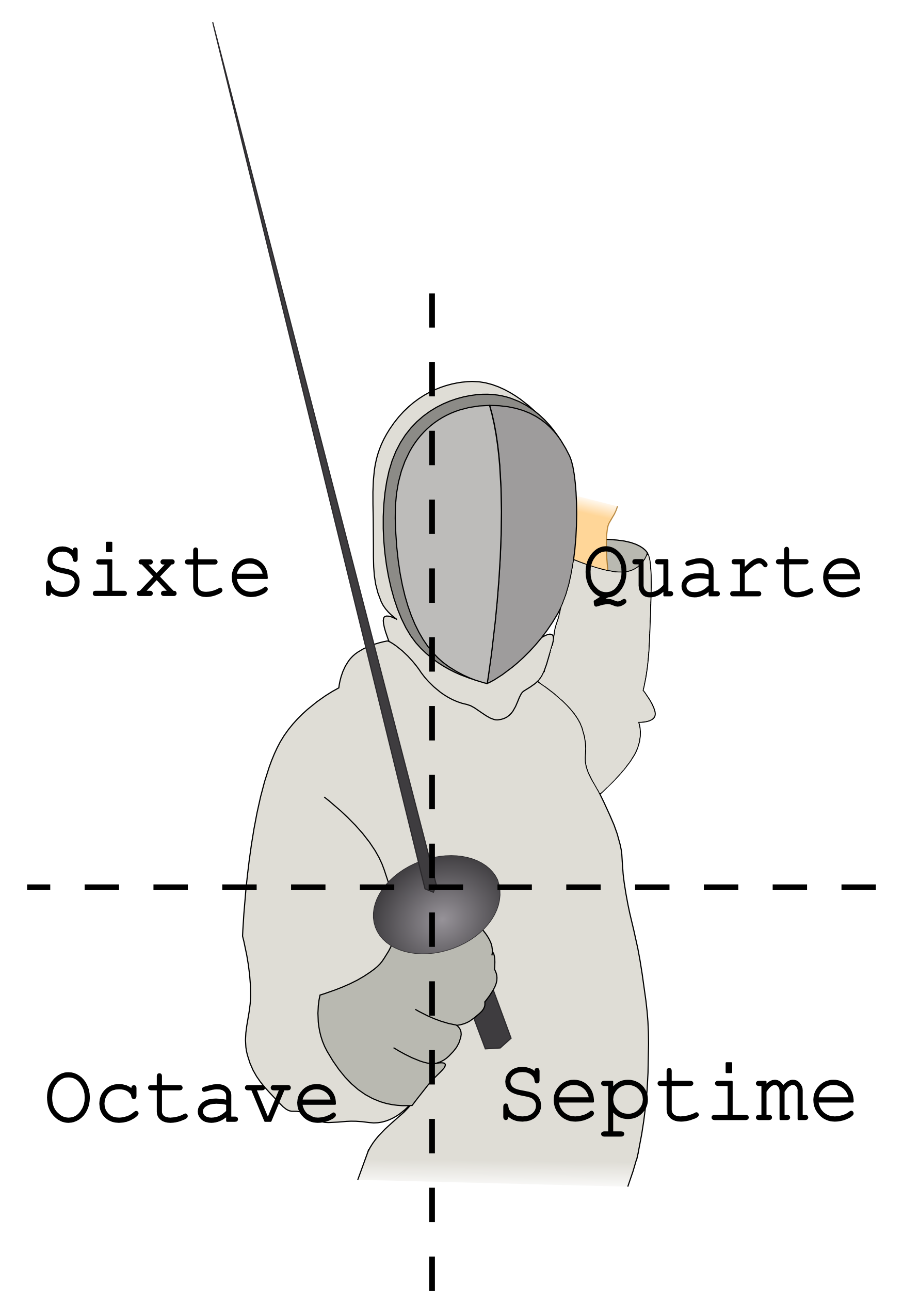 The mainlines in Fencing. Made by Ningyou.